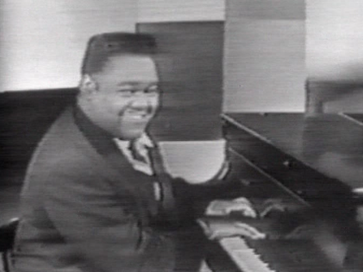 A screenshot of Fats Domino singing "Blueberry Hill" on the "Alan Freed Show" 1956. The picture quality is bad, taken from a video-tape source. I feel this may be useful as the image is public, as it's a screenshot from a TV series not under copyright.